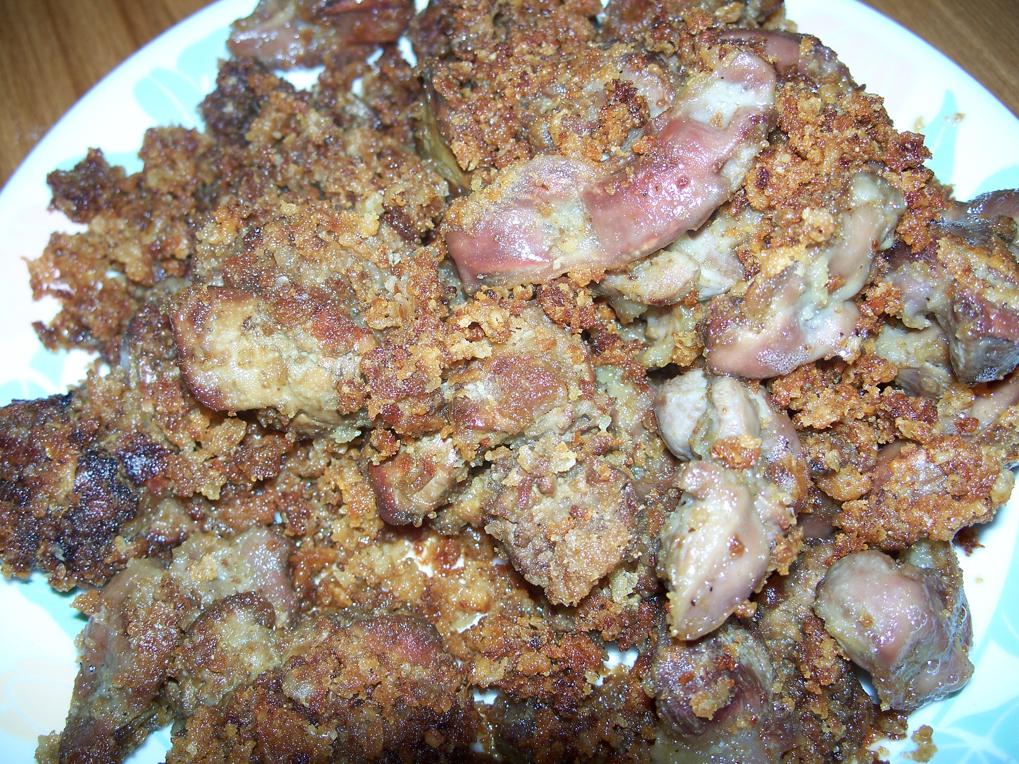 Fried gizzards and livers. Image taken by myself, Vance Cannon, in September 2007.